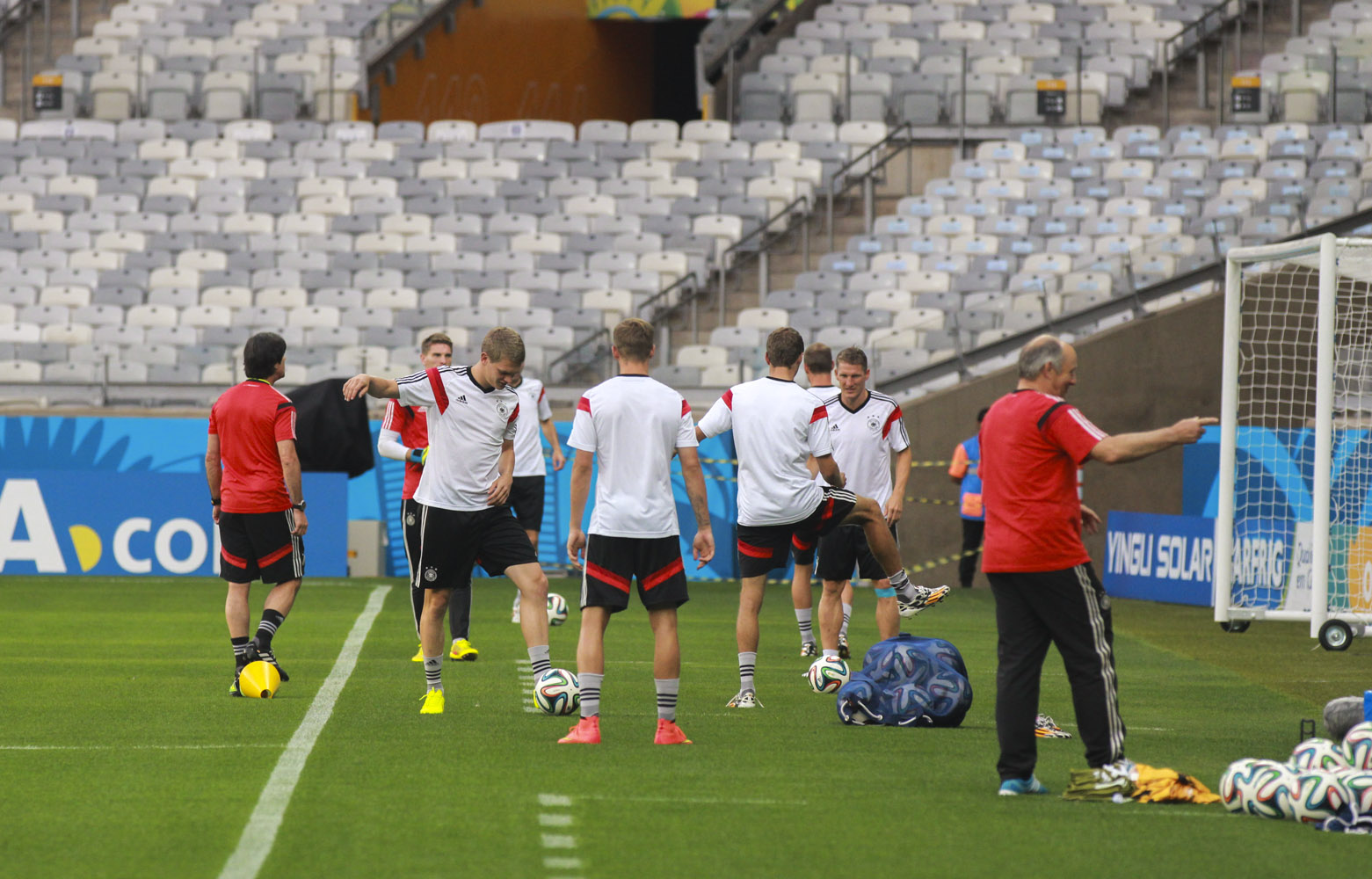 Coaching the German national team for one day before the semifinal game of the world championship in 2014 against Brazil 2014-07-07